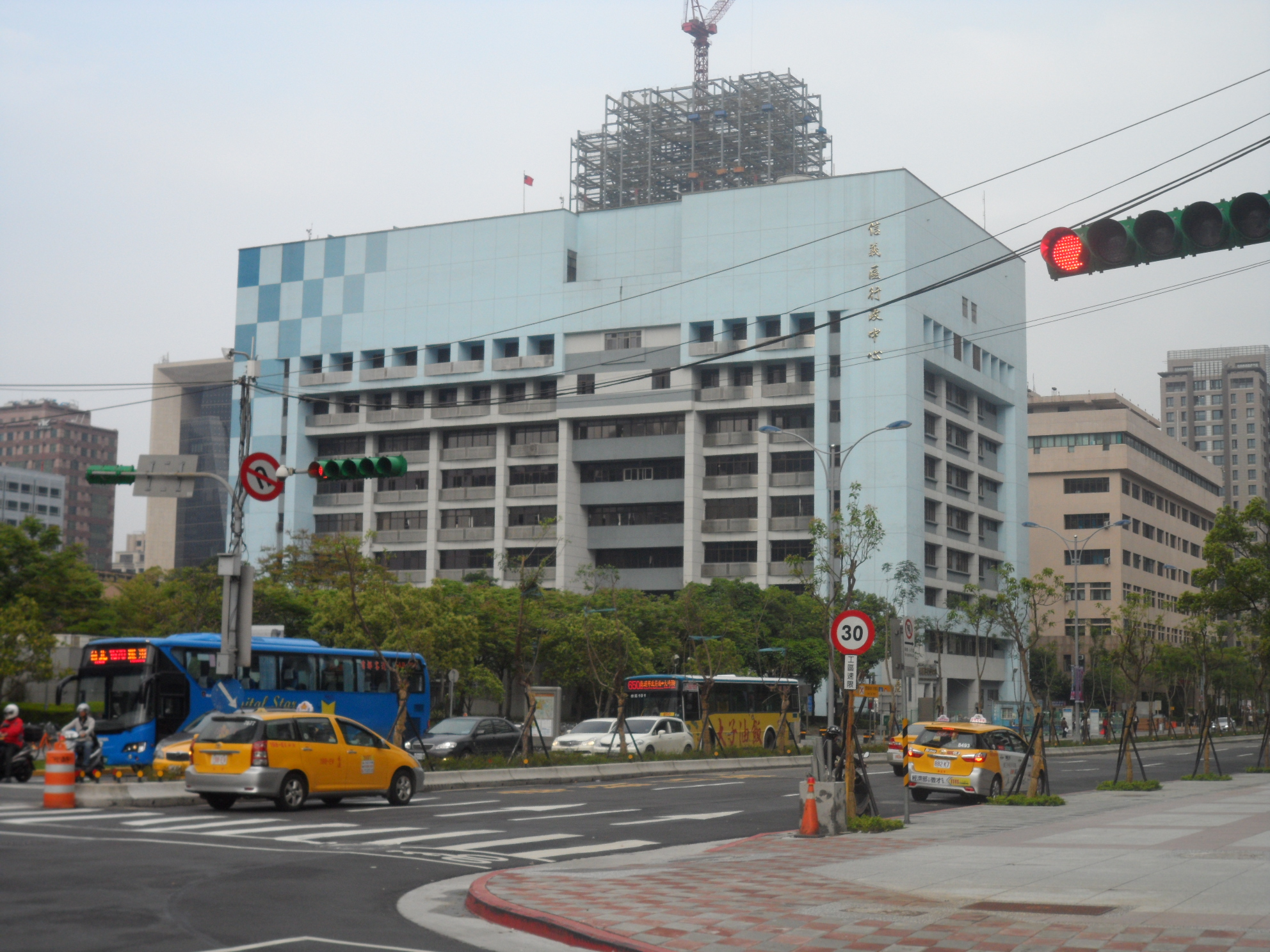 Xinyi District Administration Center, Taipei City.